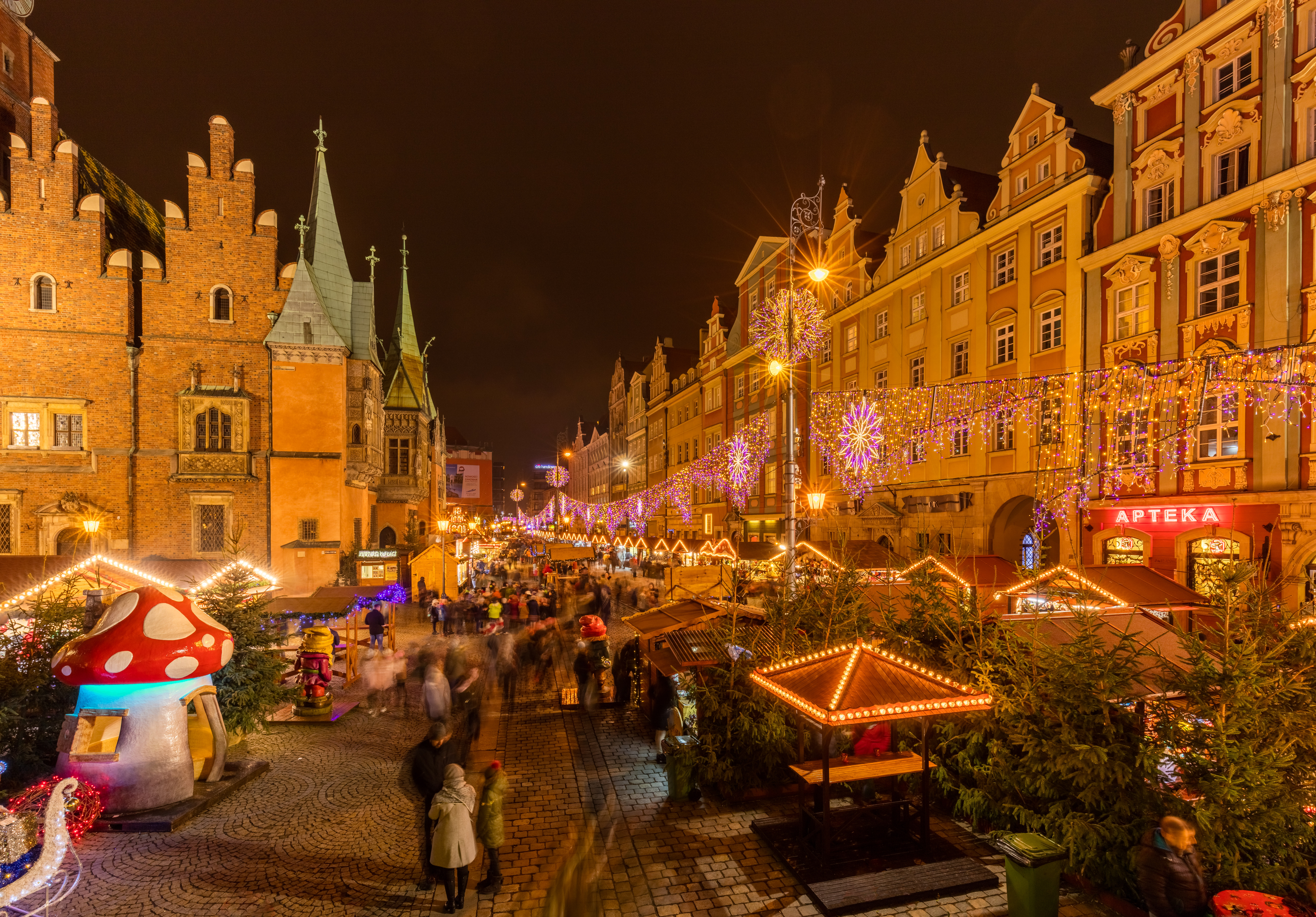 Christmas market, Market Square, Wrocław, Poland